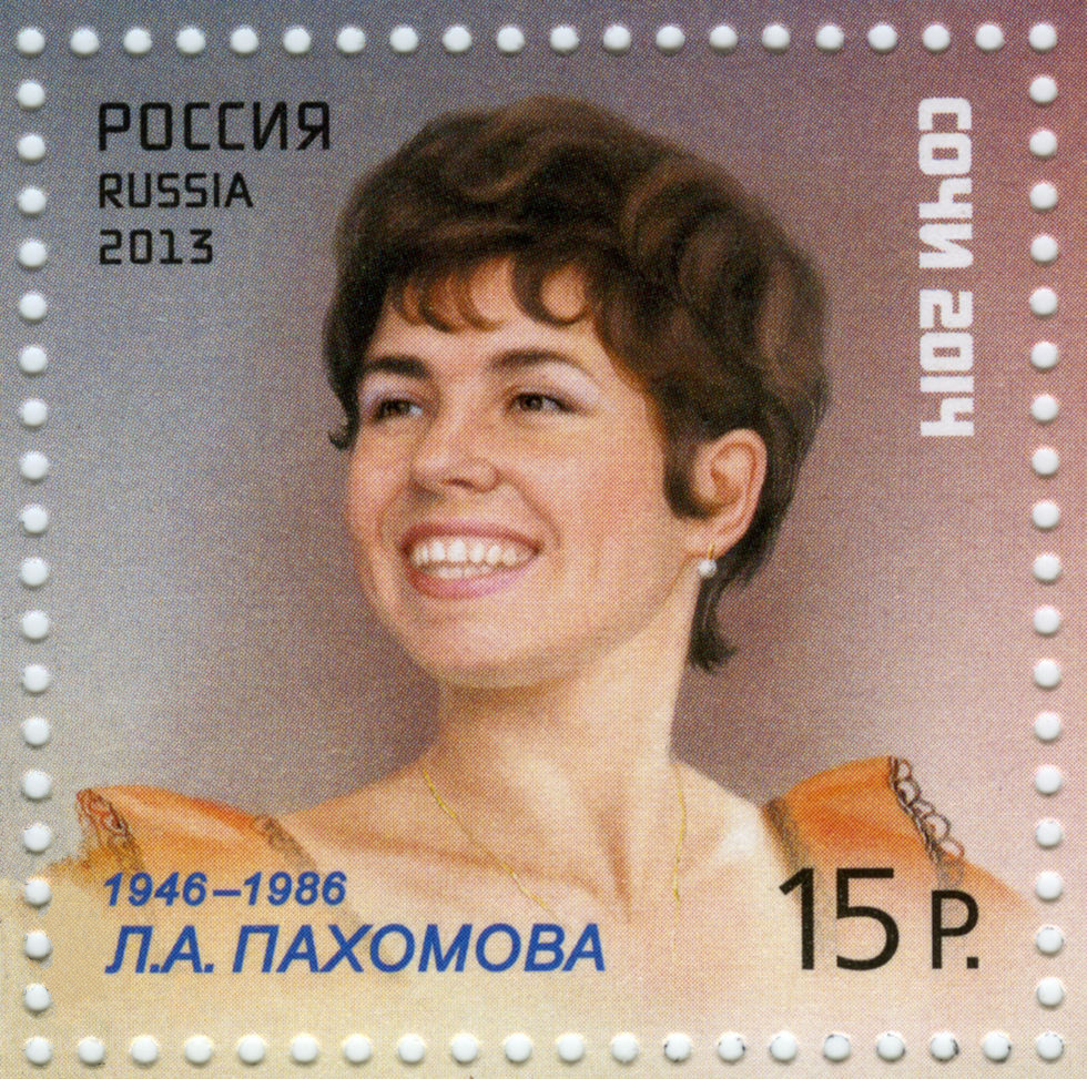 № 1751-1755. XXII Olympic Winter Games and XI Paralympic Winter Games 2014 in Sochi. Sports Legends. 1752 – Lyudmila A. Pakhomova (1946–1986)